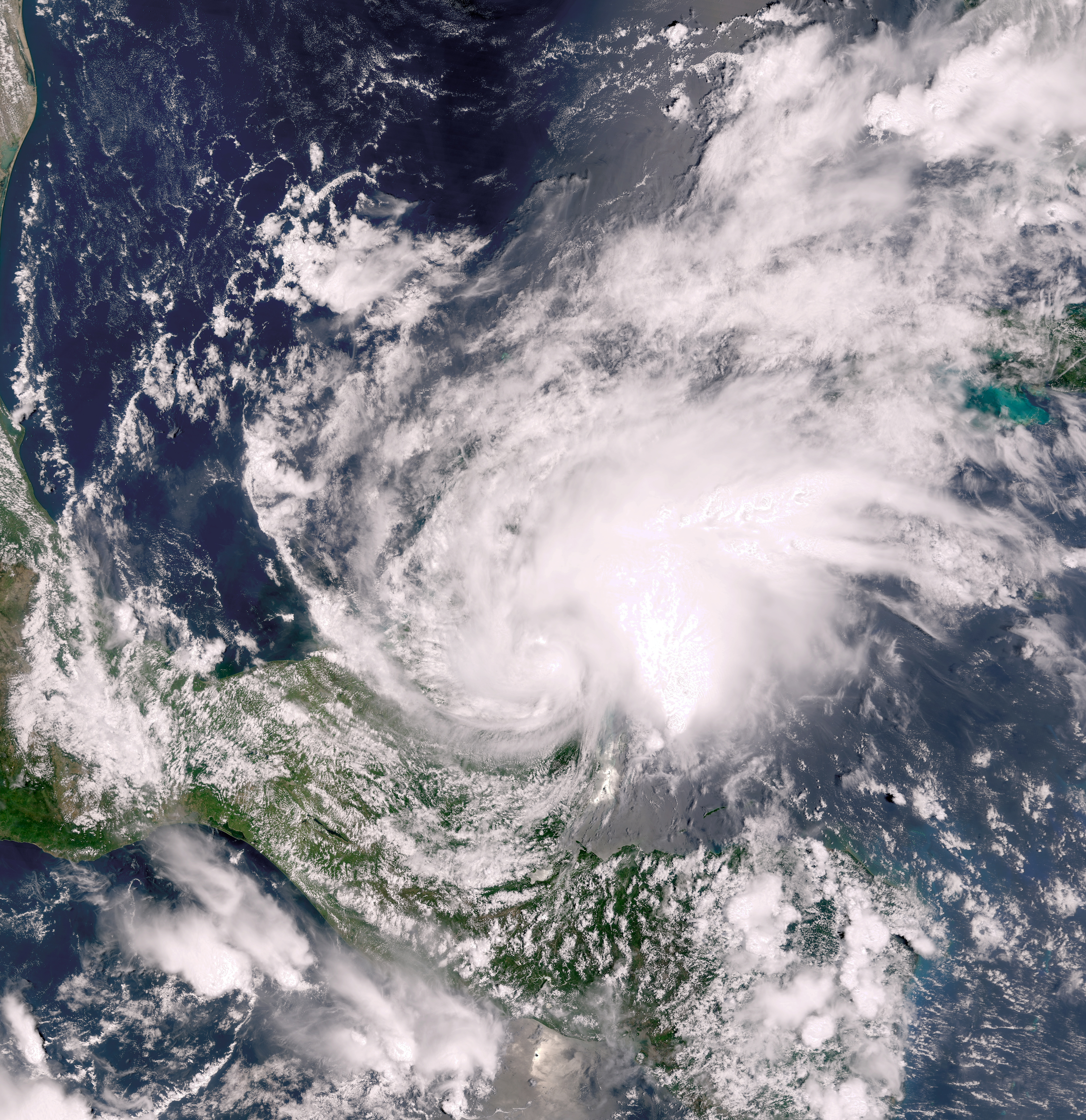 Tropical Storm Chantal after landfall on the Yucatán Peninsula.